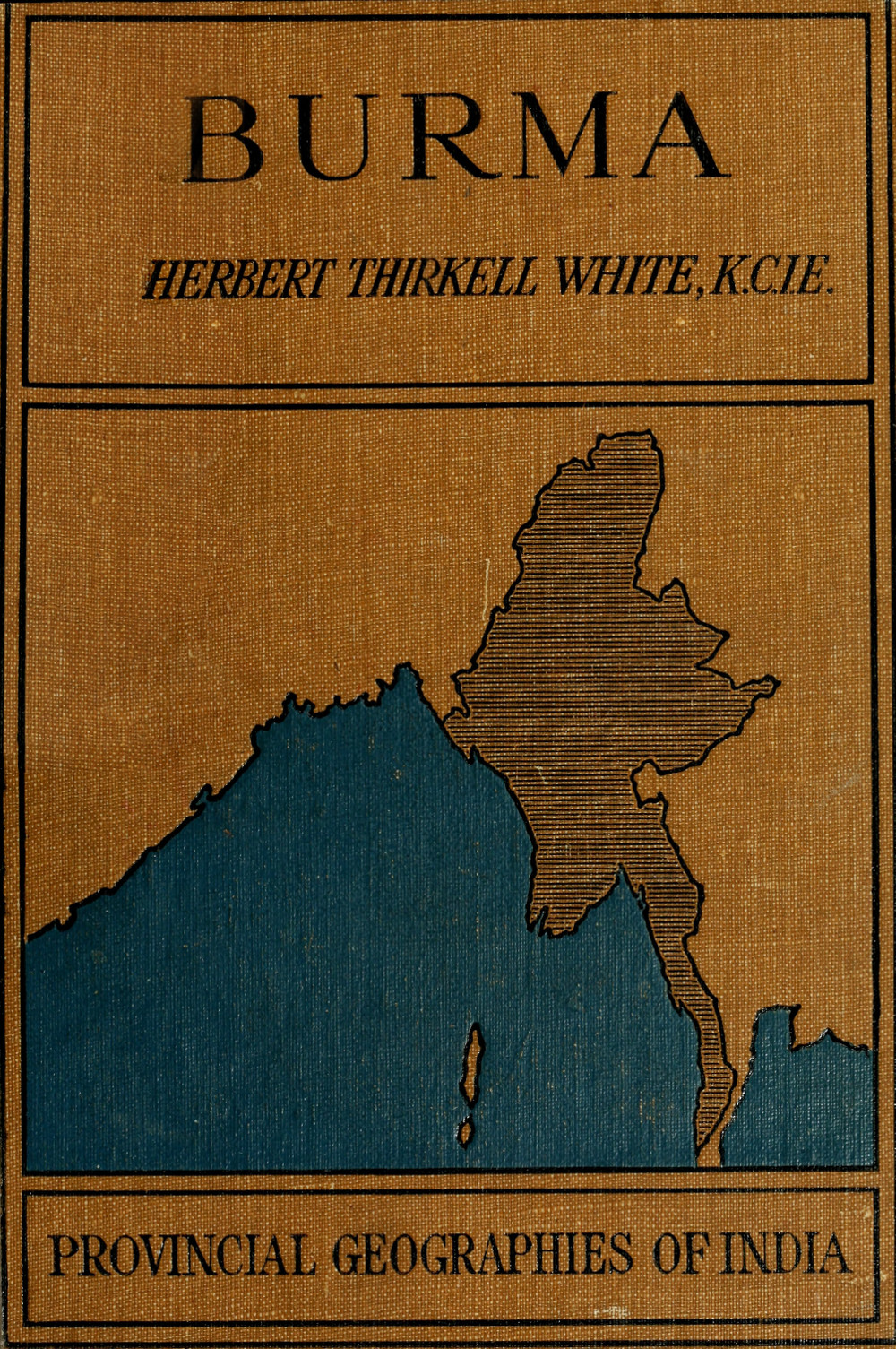 Scan from 'Provincial geographies of India Volume 4'